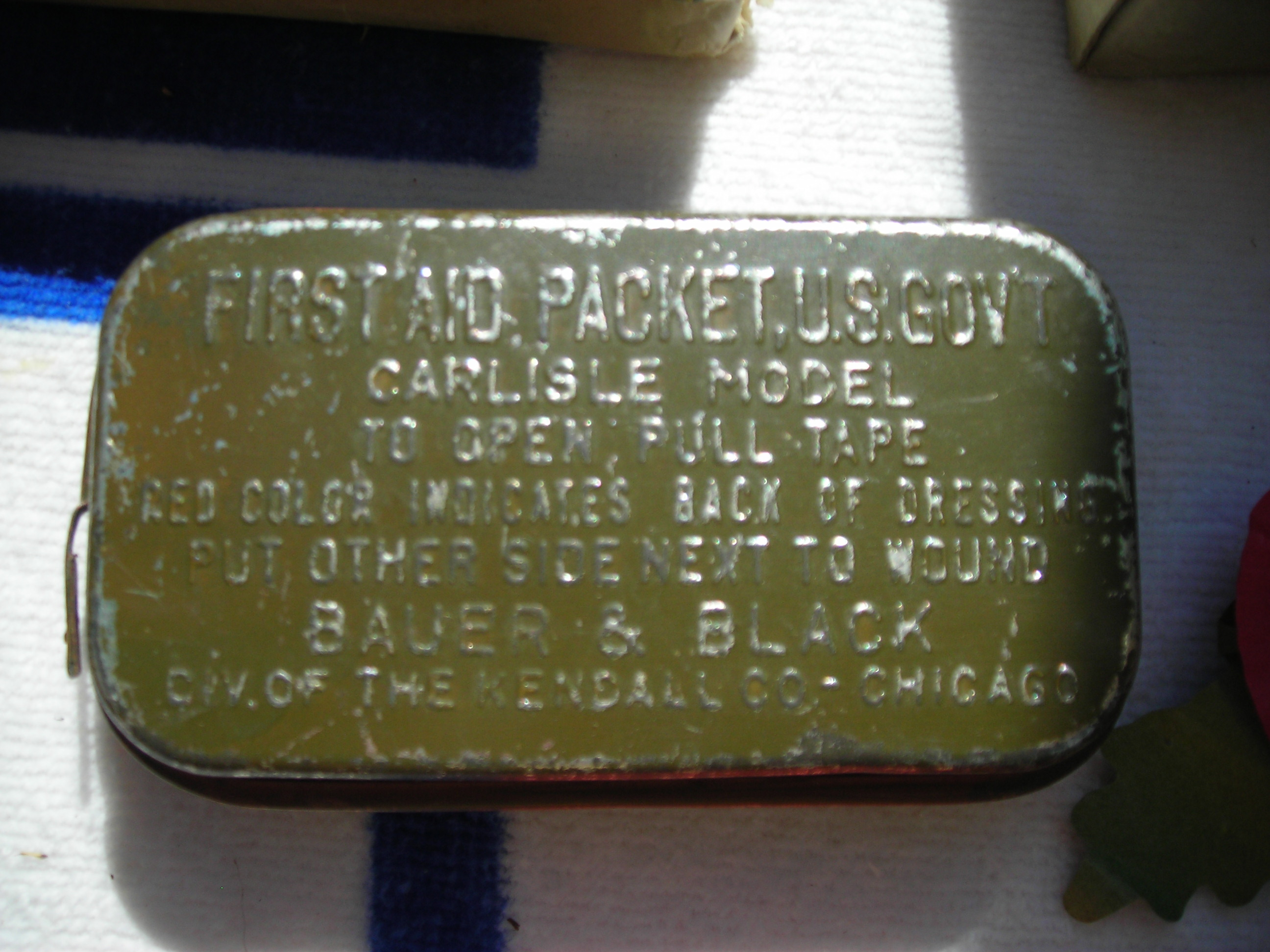 First Aid kit used by American soldiers during the 2nd World War